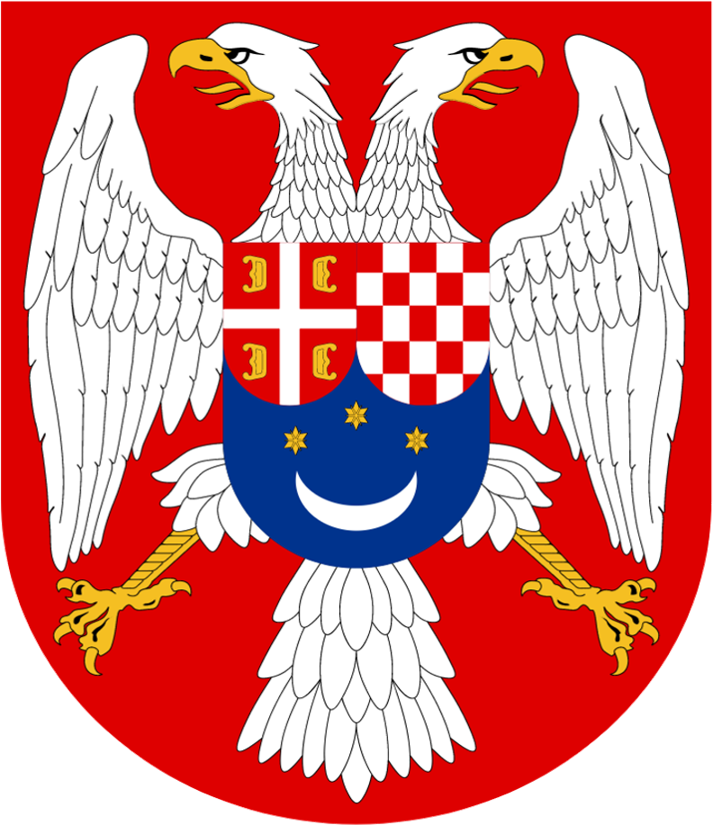 Lesser Coat of Arms of the Kingdom of Yugoslavia